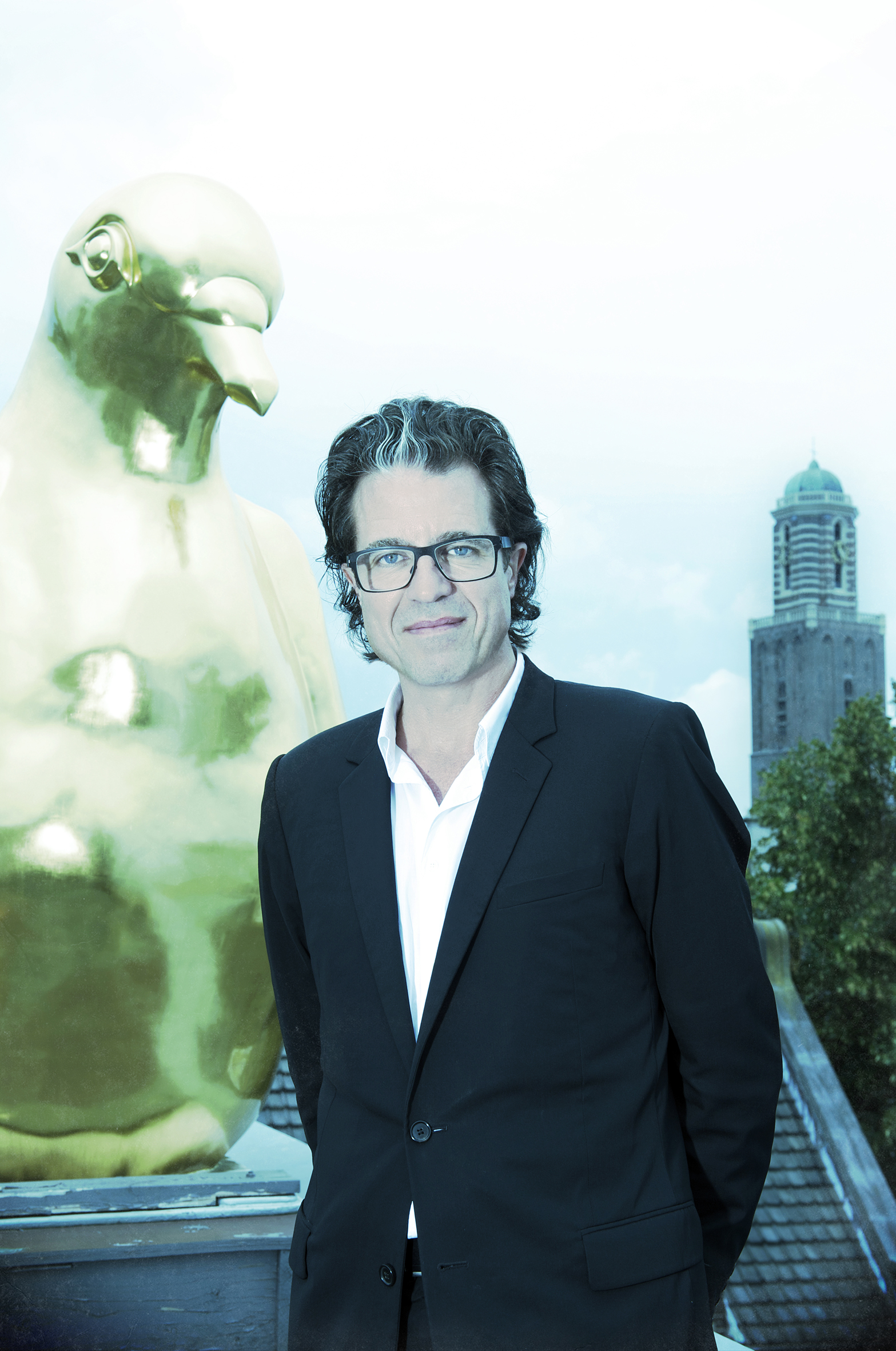 Portrait Ralph Keuning